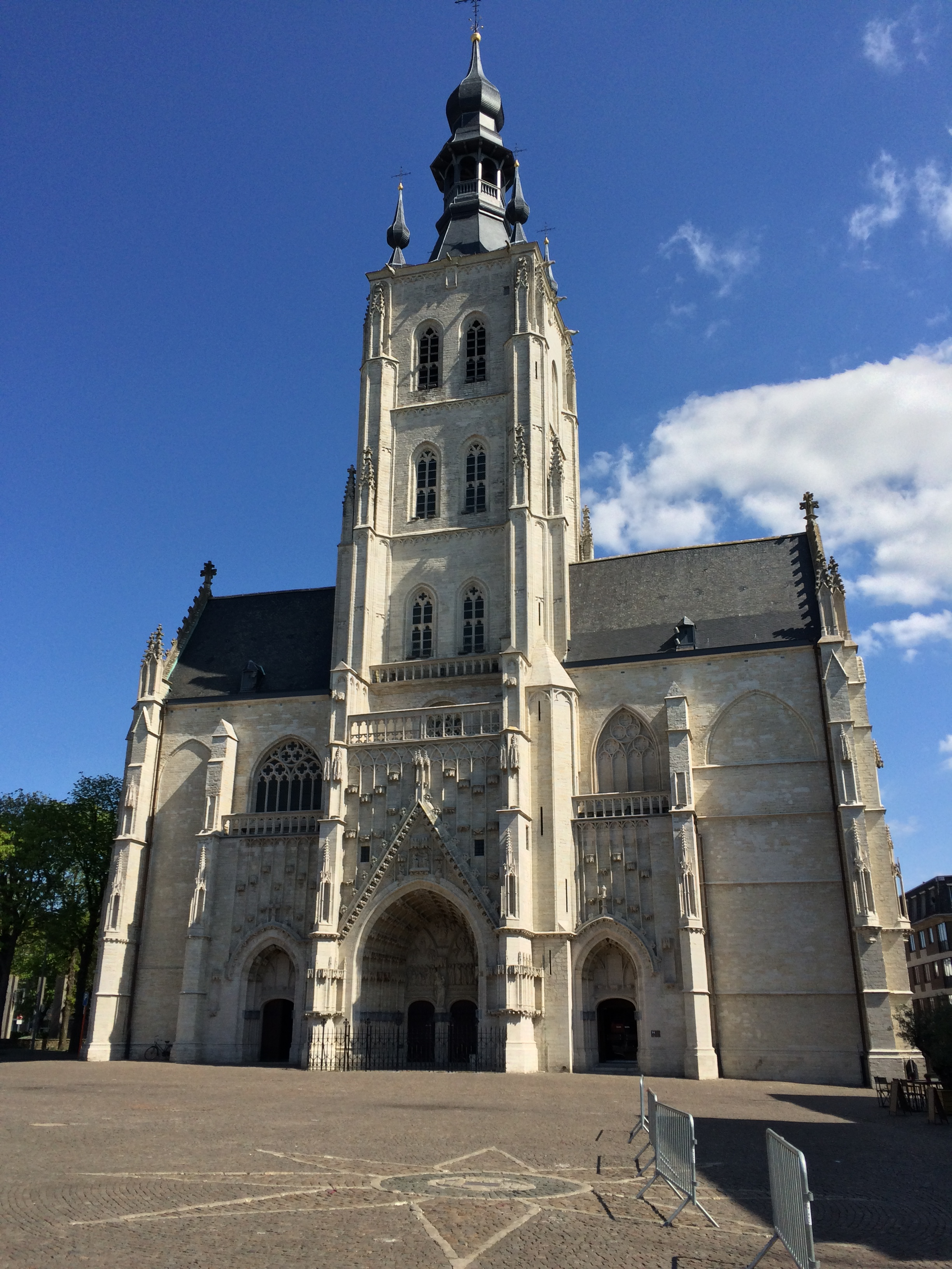 The Church 'OLV-ten-Poel', 'Our Lady of the Lake', in the city of Tienen, Belgium.